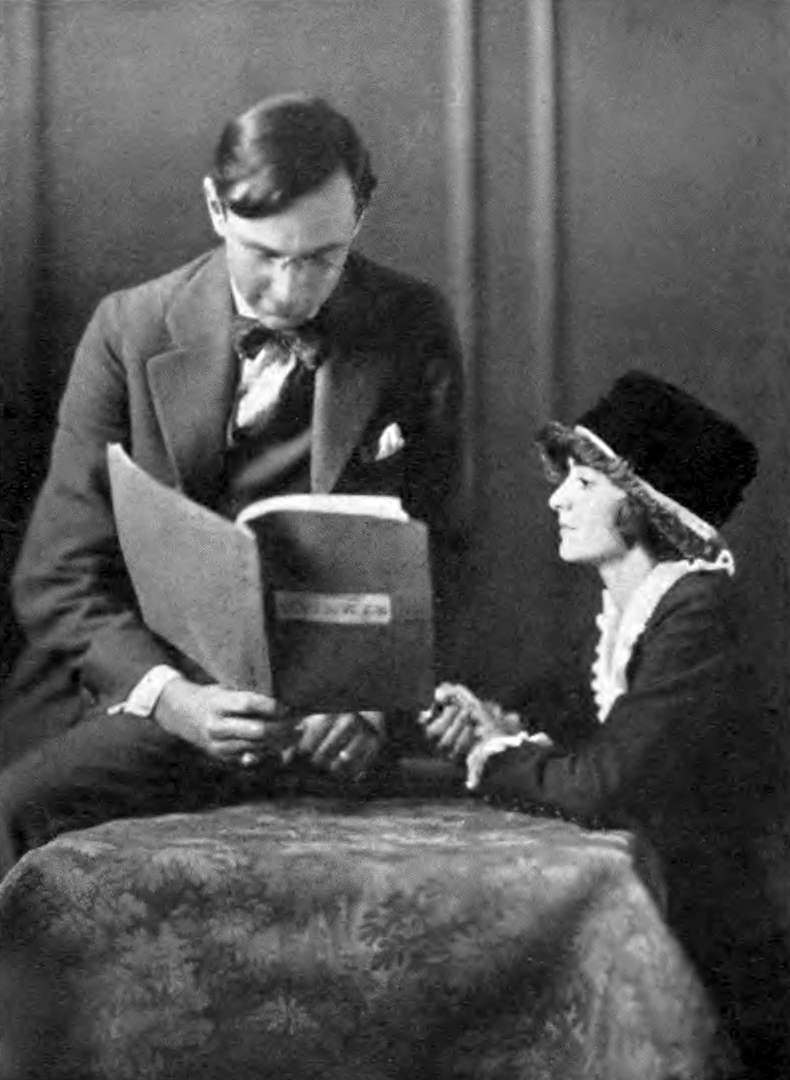 Photograph of producer-director Stuart Walker and actress Lillian Ross Caption reads as follows:STUART WALKERReading "Seventeen" to Lillian Ross, who plays the part of Jane